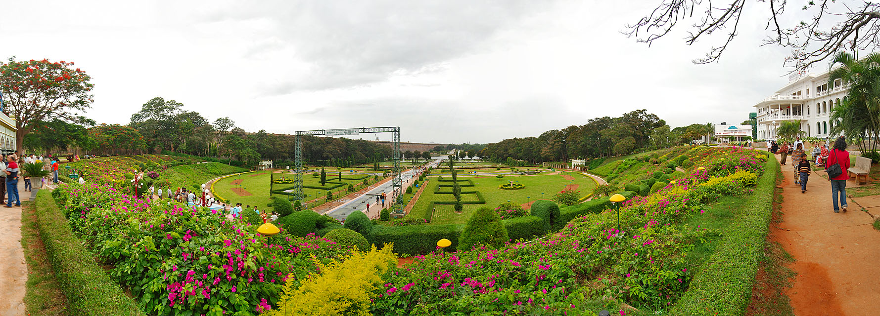 Krishna Raja Sagara